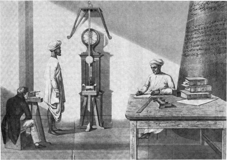 Drawing of the measurement of the acceleration of gravity with an invariable pendulum at Madras, India by British astronomer John Goldingham in 1821. From his 1822 paper to the Royal Society. The pendulum swings on two knife edge pivots suspended from a bracket on the wall, in front of a precision pendulum clock set to correct time by the stars. The periods of the two pendulums are compared, using a sight to eliminate parallax error. The strength of gravity is calculated from the period of the pendulum. Alterations to image: Removed caption and frame. Image contains aliasing artifacts from scanning of original halftone image, partially removed with Gimp Fourier transform tool. Converted to 64 greyscale PNG.